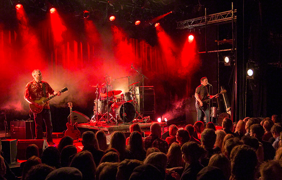 Pogo Pops in concert at Parkteatret in Oslo. Lineup: Frank Hammersland (bass and vocal) Viggo Krüger (guitar) Nikolai Hamre (drums)